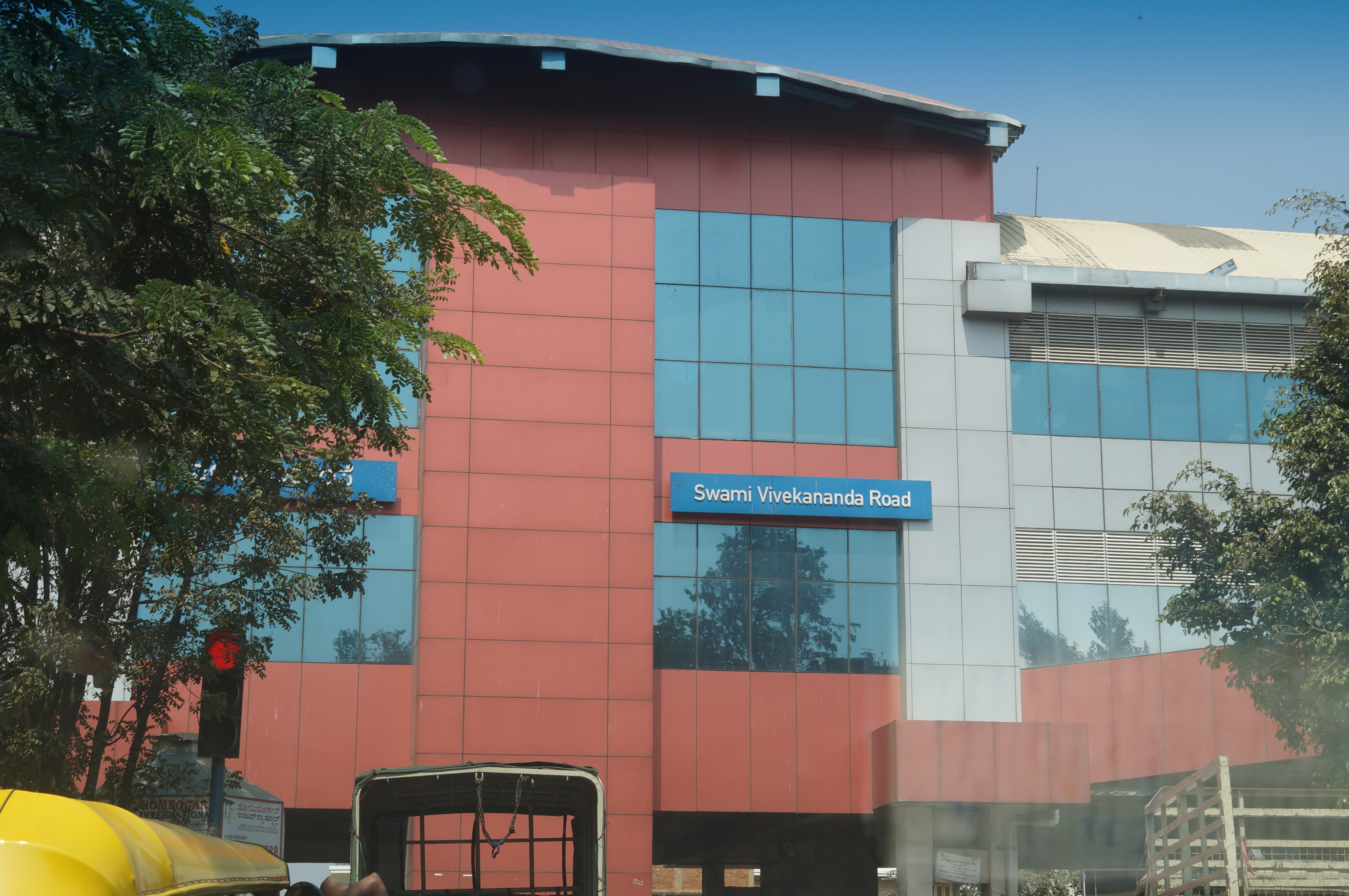 Swami Vivekananda Road Metro station, Bangalore, A view from Indira Nagar CV raman hospital road.